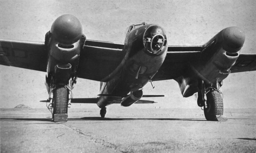 A de Havilland Mosquito on the ground with a RAE-Vickers rocket model in place below the fuselage.